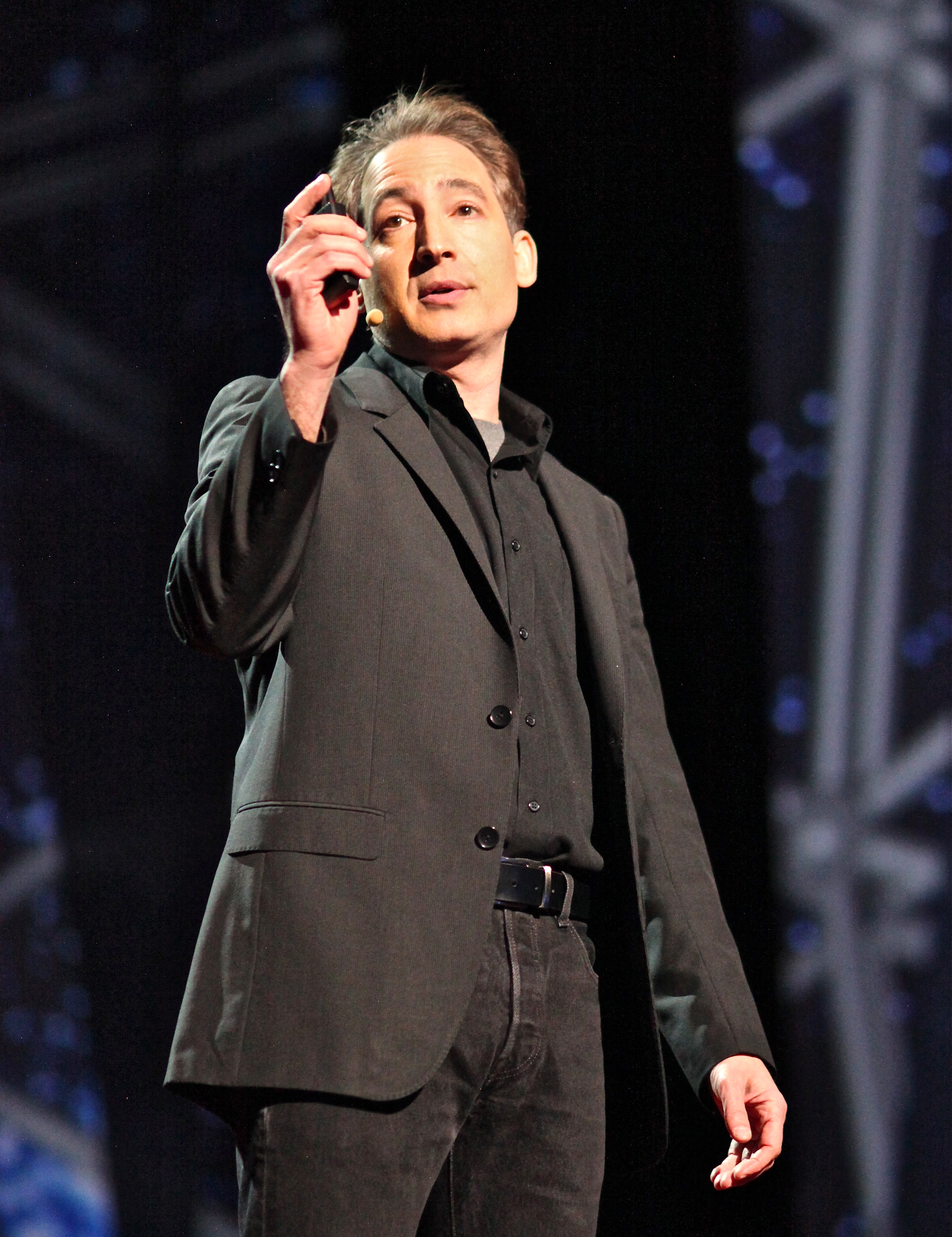 Brian Greene, February 28, 2012 Plucking the Strings of the Multiverse